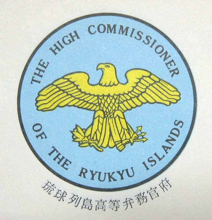 logo of the High Commissioners of USCAR, United States Civil Administration of the Ryukyu Islands, abolished May 15th 1972